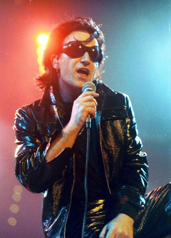 Bono playing his on-stage character "The Fly" during U2's show in Cleveland, OH on March 26, 1992 on their Zoo TV Tour